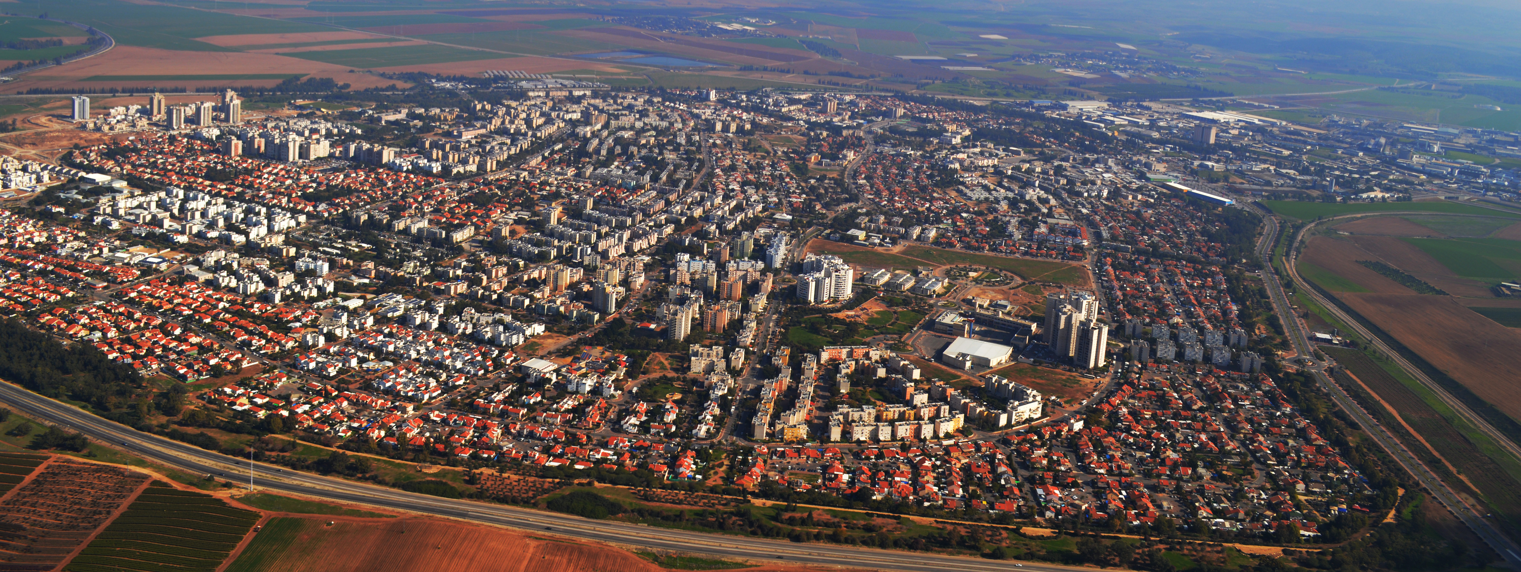 Kiryat Gat Aerial View